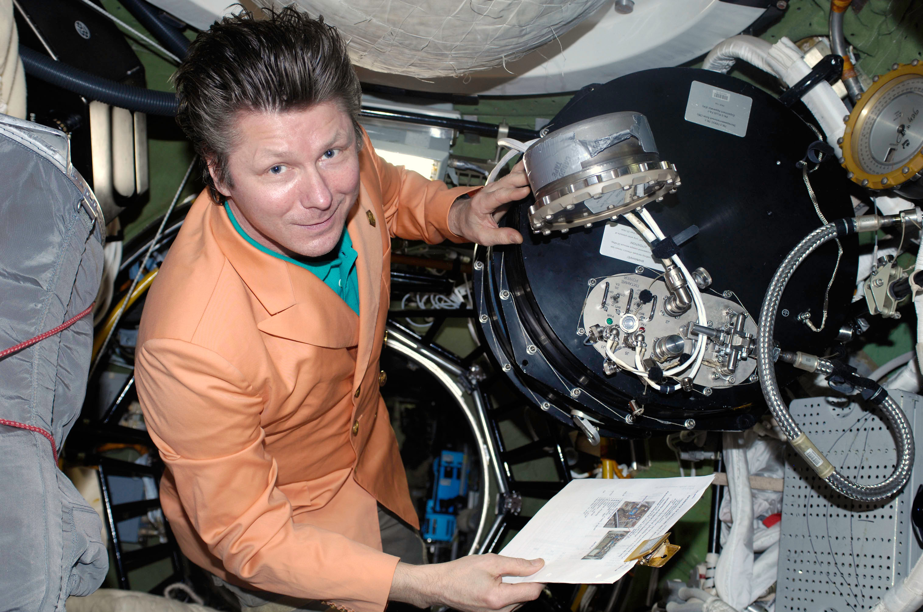 Cosmonaut Gennady Padalka, Expedition 20 commander, is pictured in the Pirs Docking Compartment of the International Space Station.